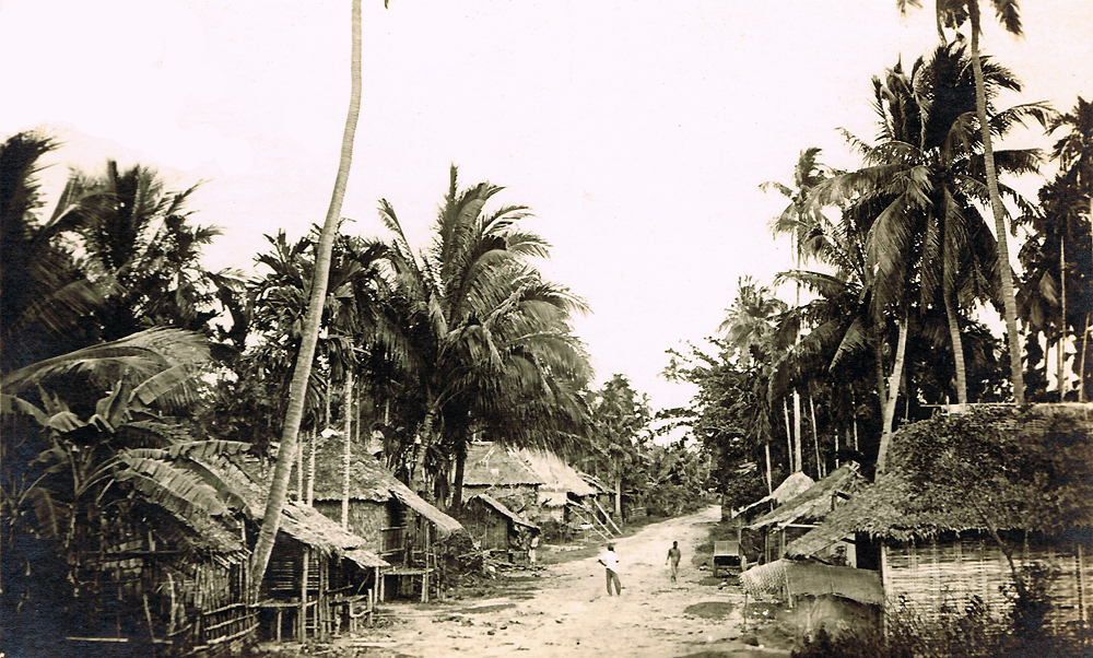 A street in iligan Moro Province (1903–1913).